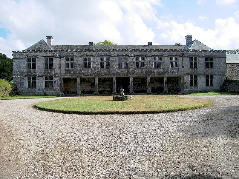 Godolphin House - Penwith - Cornwall - UK